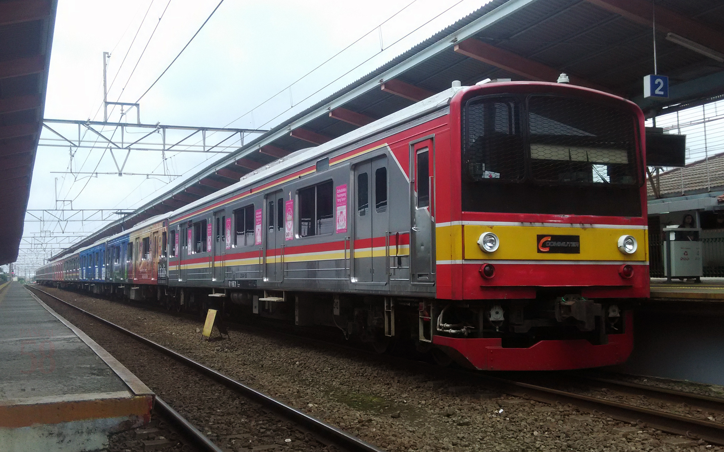 KA Commuter Jabodetabek (KCJ) 205 series EMU set BOO 15, formerly JR East Yokohama Line 205 series EMU set H28, stops at Depok station after serving Nambo branch line, January 2017.